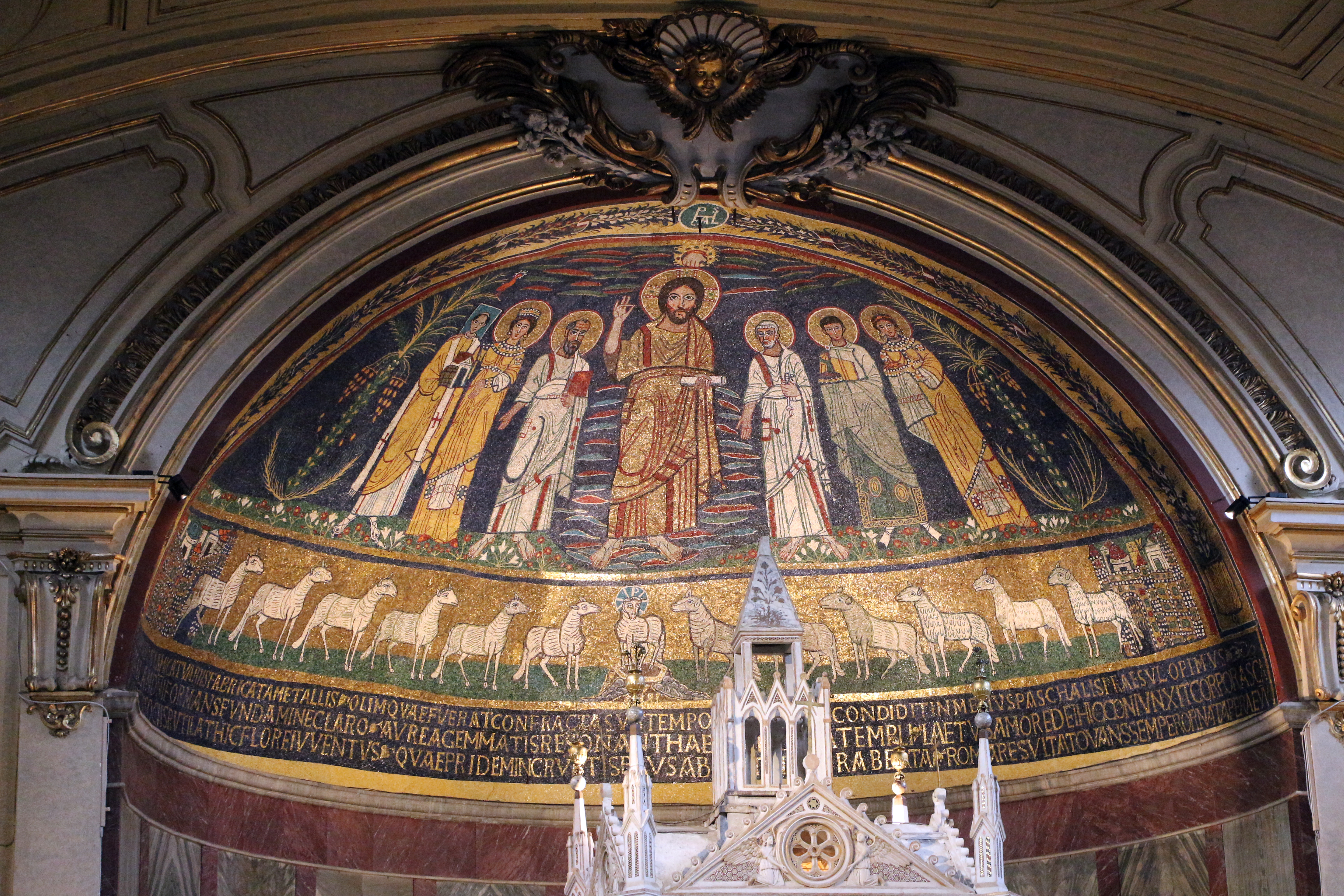 Santa Cecilia (Rome)